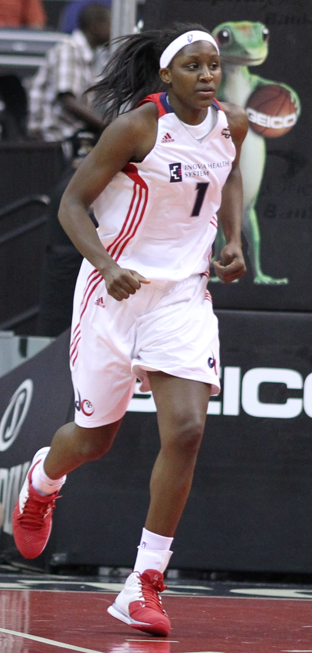 Crystal Langhorne of the Washington Mystics (at time of photo)